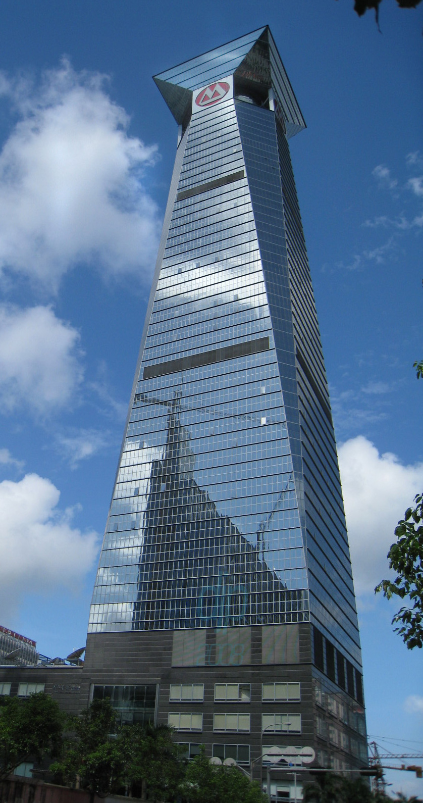 China Merchants Bank Tower - The Merchant's Bank worldwide headquarters here in West Futian district. The distinctive silhouette serves as a beacon for the residents of Honey Lake, Che Gong Miao, The East Sea gardens, and Shenzhen's west side. At the intersection of NongYuan Lu and Shennan Dadao, next to CheGongMiao metro stop in Shenzhen's flourishing Futian district